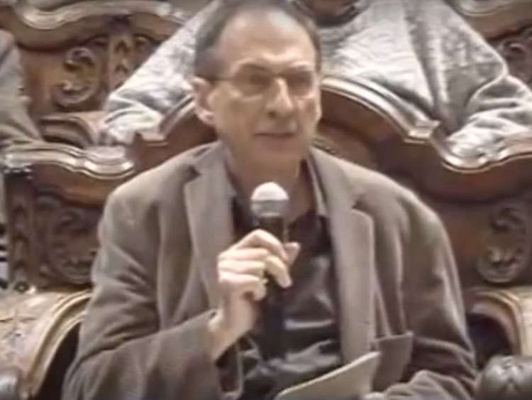 Resum de la sessió d'Anatomia, balanç i profecia de la literatura catalana que promou anualment Lletra, l'espai virtual de literatura catalana de la Universitat Oberta de Catalunya, amb Josep Maria Benet i Jornet, Joan Carles Girbés, Sam Abrams, Vicenç Villatoro, Joan Manel Tresserras, Anna Soler-Pont, Monila Lubcke i Rosa Vinyallonga. Barcelona, 30 de gener de 2007.